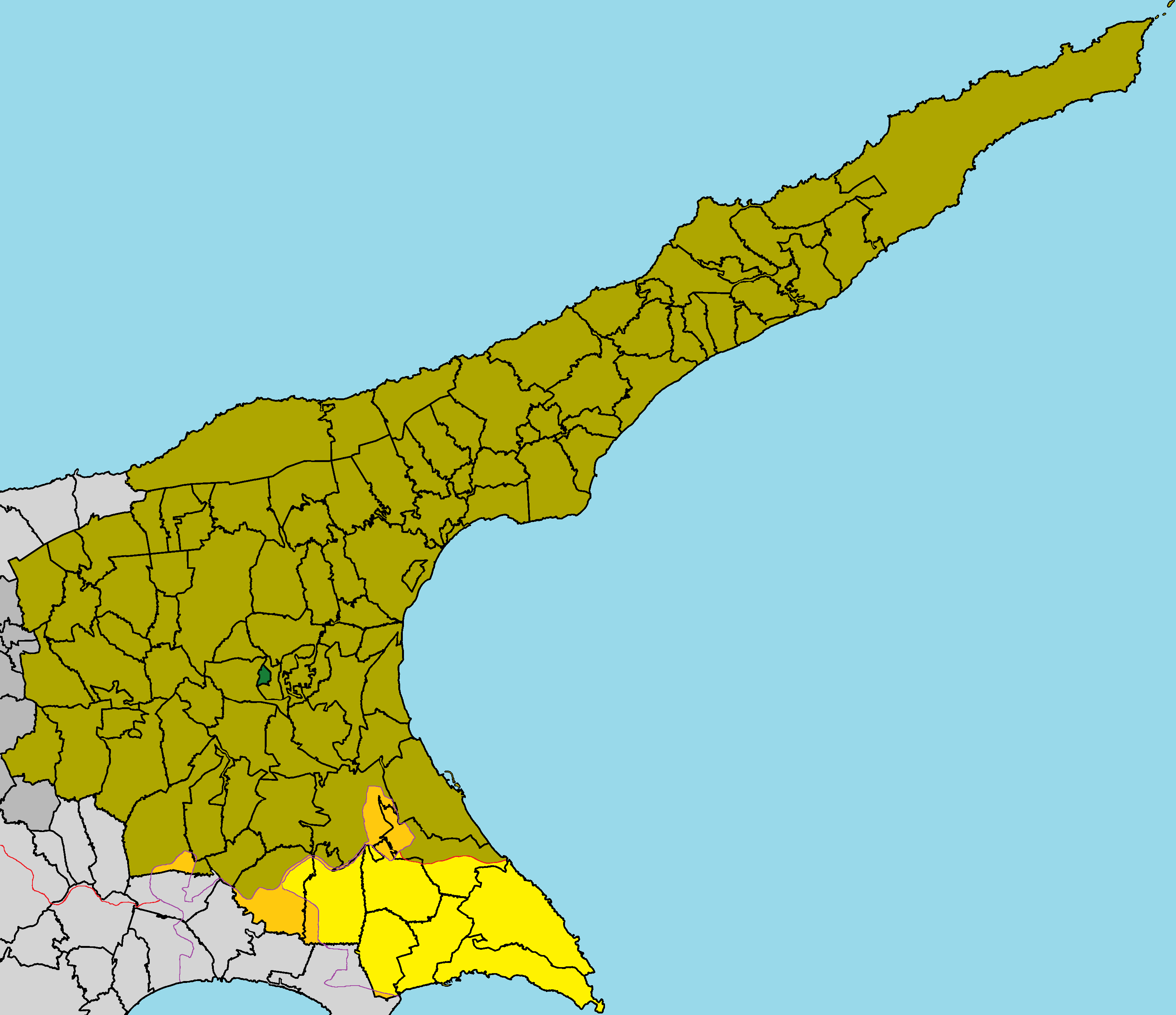 Maratha in Famagusta District (de jure).